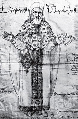 The Georgian Royal Nuncio, Nicephorus Isbarghi (or Nicholsa Erbashi). According to Castelli: Nicephorus surnamed Isbaghi. Nuncio of the King and of the Patriarch of Georgia, who went to Rome, to Urbanus VIII in 1626, to ask him to send to his country apostolic ministers. Bishop Nikiphor Irbach (Irobakidze), an ambassador of Georgia to Rome. A sketch by the Catholic missionaire Don Cristoforo De Castelli.